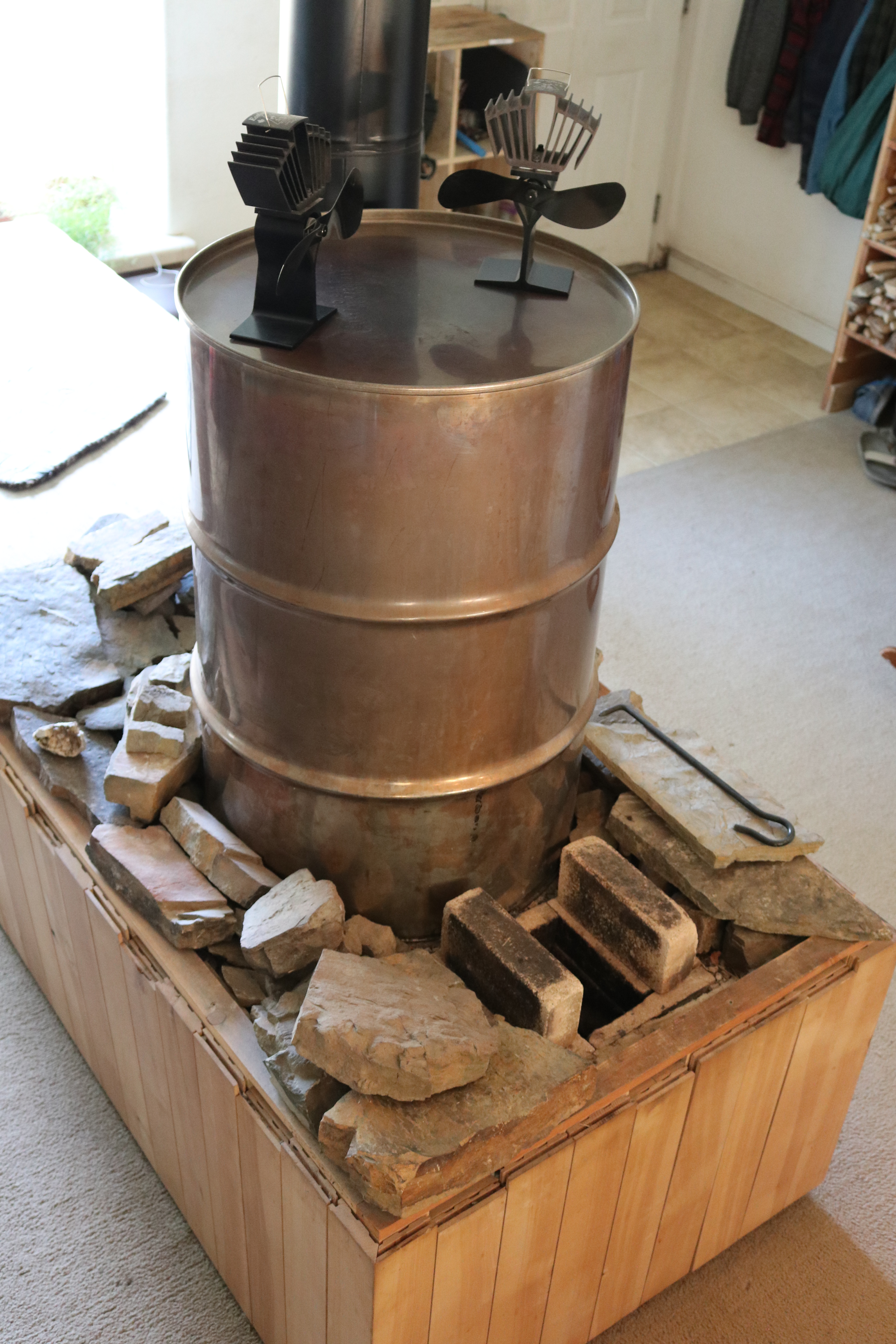 Pebble style rocket mass heater showing the barrel and pebble-based heat mass